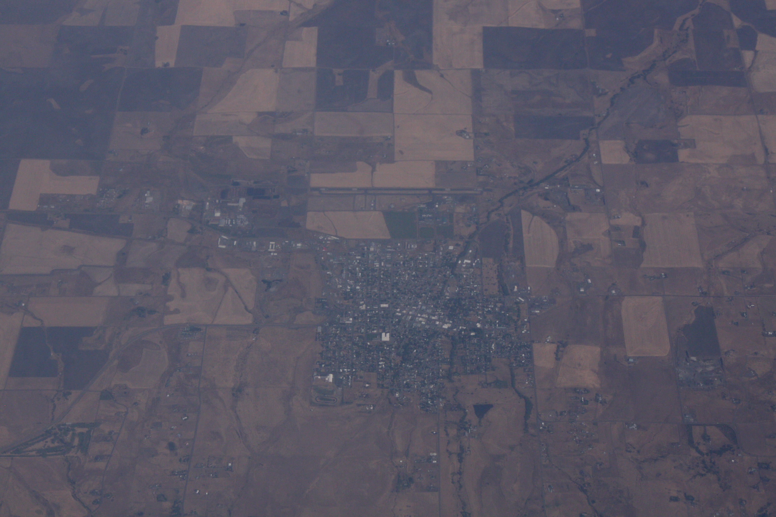 Oblique air photo of Grangeville, Idaho, facing north